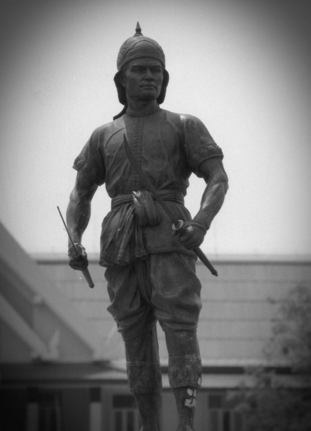 Thai Warrior Phraya Pichai "Daab Hak"